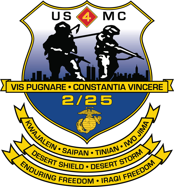 The insignia of the United States Marine Corps 2nd Battalion 25th Marines.